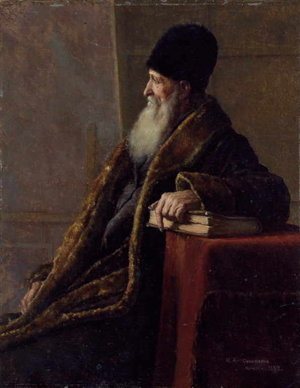 Portrait of man with furry coat, 1892